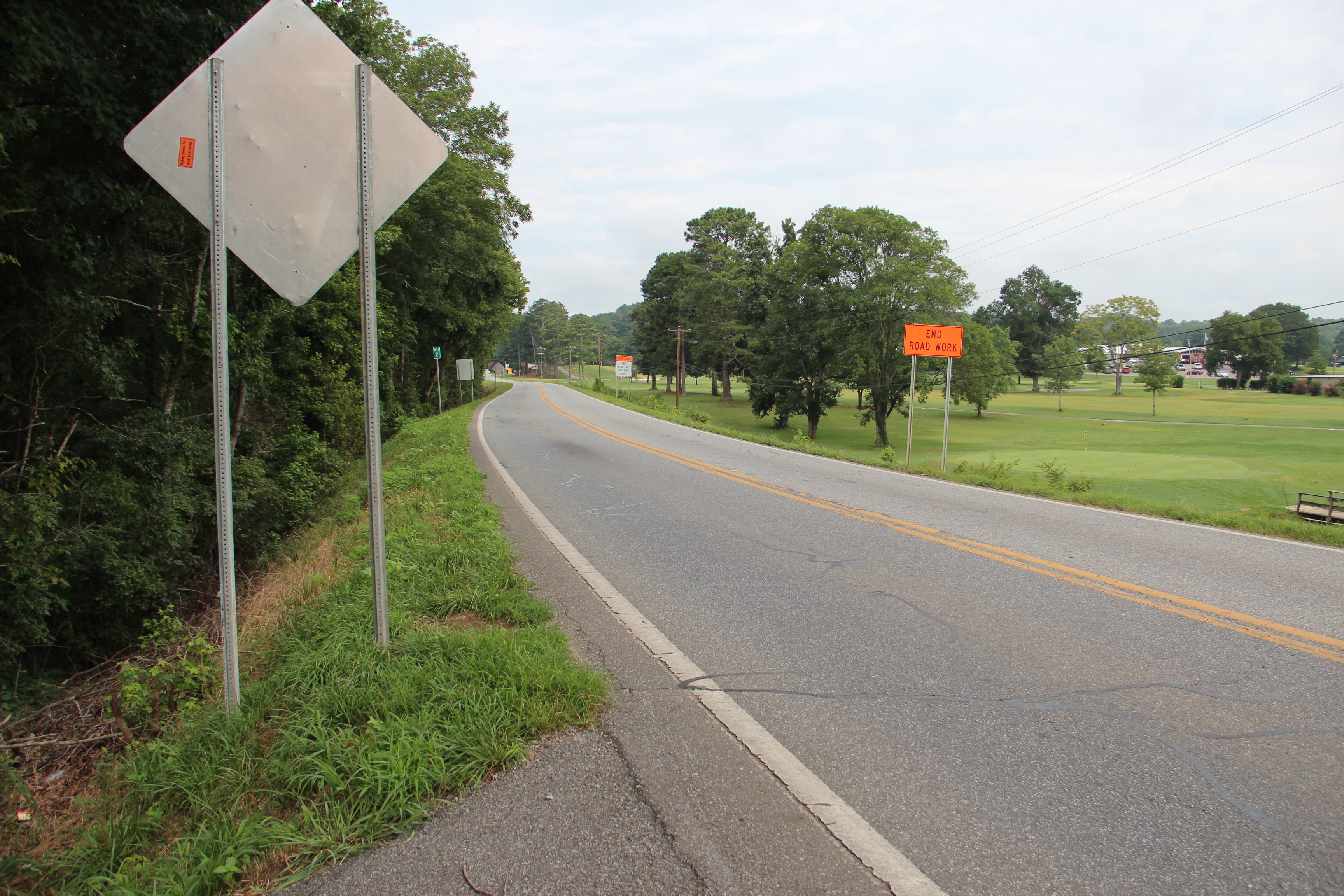 Georgia State Route 225 near mile post 2 in Gordon County